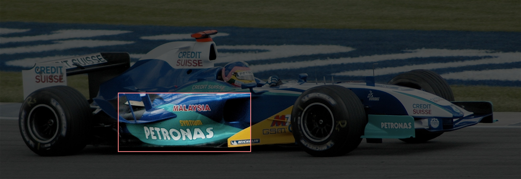 Jacques Villeneuve at the 2005 US Grand Prix driving Sauber C24, with the car's "sidepod" highlighted.